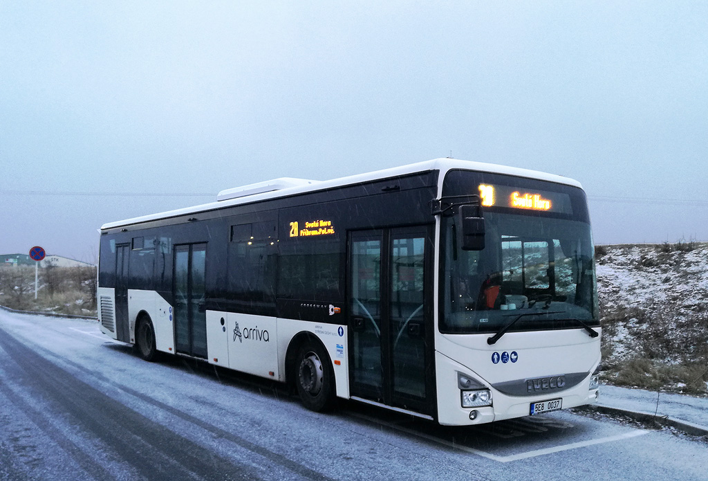 Bus Iveco Crossway LE City